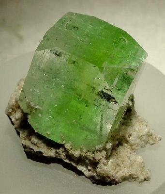 Natroapophyllite Locality: Nasik District, Maharashtra, India (Locality at ) Size: thumbnail, 2.5 x 1.8 x 2.2 cm Apophyllite This is a stunning, perfect, octahedron-modified cube with super-sharp edges and corners. The color varies from a lovely green band in the center to water clear along the sides. The luster is superb, and the aesthetics are out-of-this-world as the cube sits on a small plate of matrix. A classic specimen from the classic province. OK, make fun of me for selling an apophyllite thumbnail , but GO FIND a better one! I actually sold this to the previous owner who had been looking for a suitable apoph for his tastes for years, and we trimmed it down from a small cab to create this beauty. It is symmetric and on matrix and just stands out from the crowd of "small " apophs as a great thumbnail in every way. Oh...GEMMIER and more transparent in PERSON! 2.5 x 1.8 x 2.2 cm